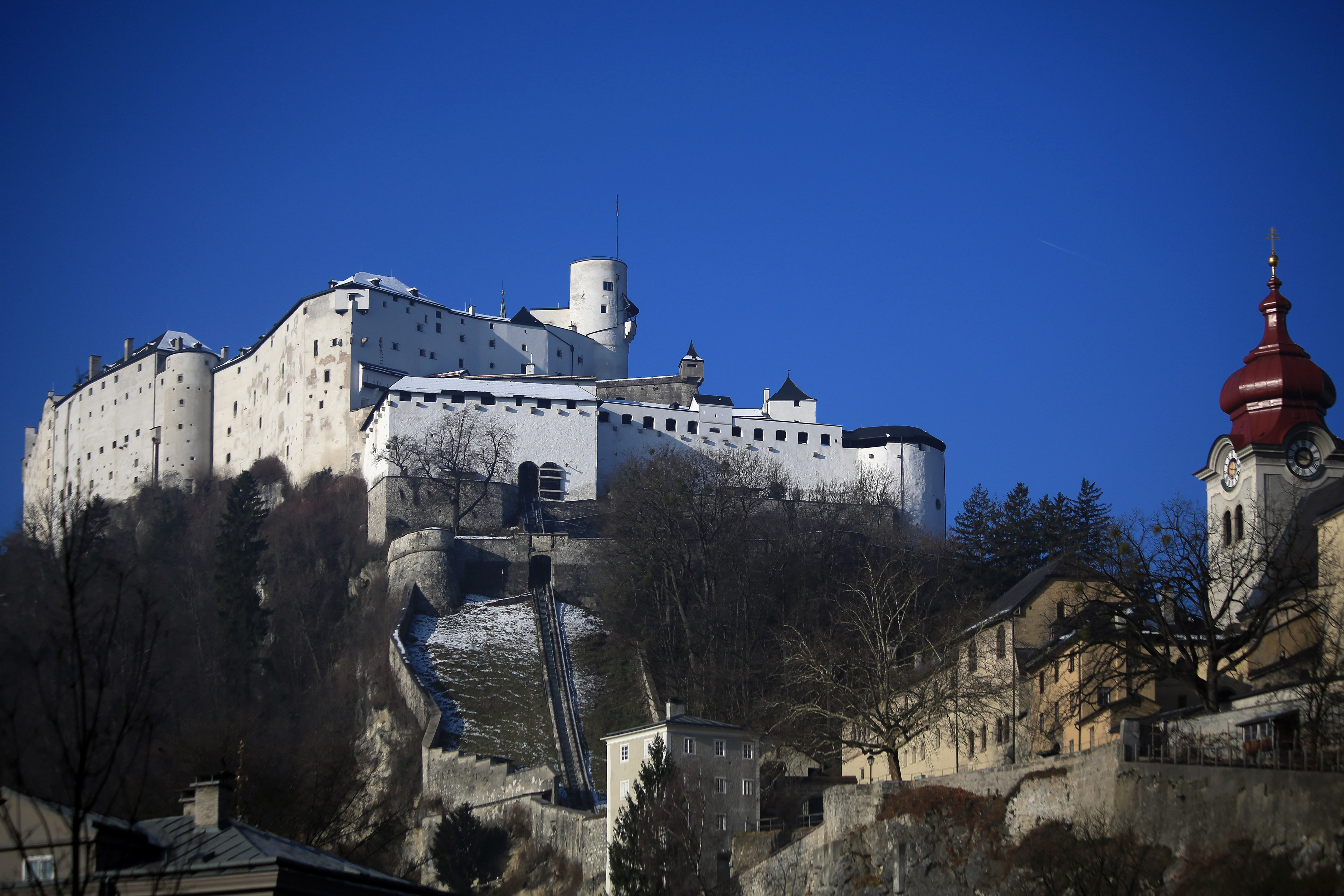 Hohensalzburg Castle with Reisszug, Nonnberg Abbey to the right, Salzburg, Austria.